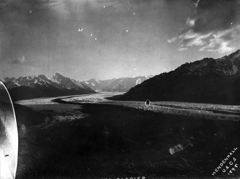 Matanuska Glacier emerging from the Chugach Range to join the Matanuska River as viewed from Glacier Point.